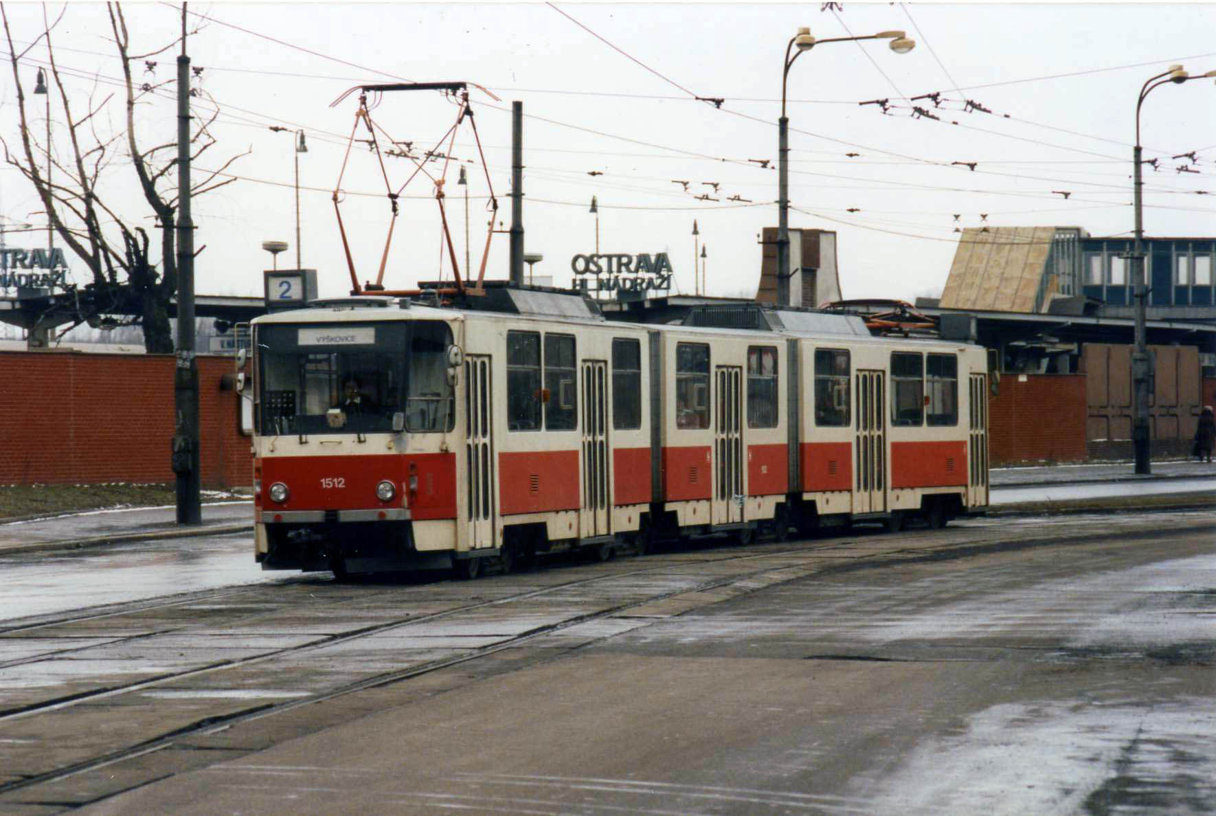 Ostrava Tram no 1512 at the main railway station,Hlavní nádraží at route to the industrial centre of Výškovice. Ostrava Tram no 1512 was delivered in 1990 as a Tatra KT8D5, one of 16 such articulated 3 carriage four axle units numbered 1500 - 1515.(1500 was a prototype delivered in 1989) In 2005 it was modified to [ KT8D5.RN1] It was photograped at the main railway station,Hlavní nádraží en route to the industrial centre of Výškovice. A list of routes operated in 2005 is here The WIkipedia page for the KT8D5 tram is here